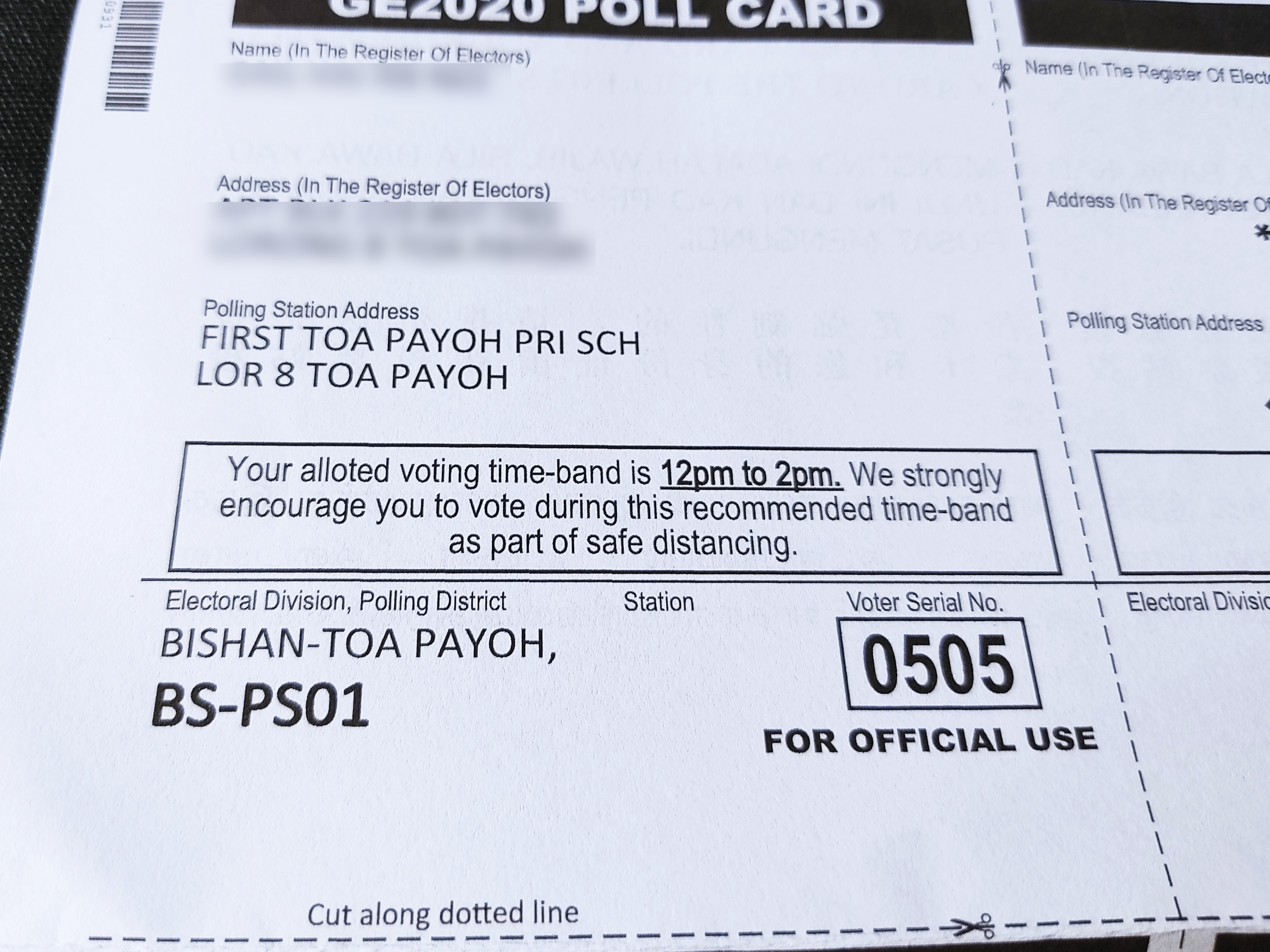 A poll card of the GE2020 Singapore Elections, for the Bishan-Toa Payoh Group Representation Constituency.